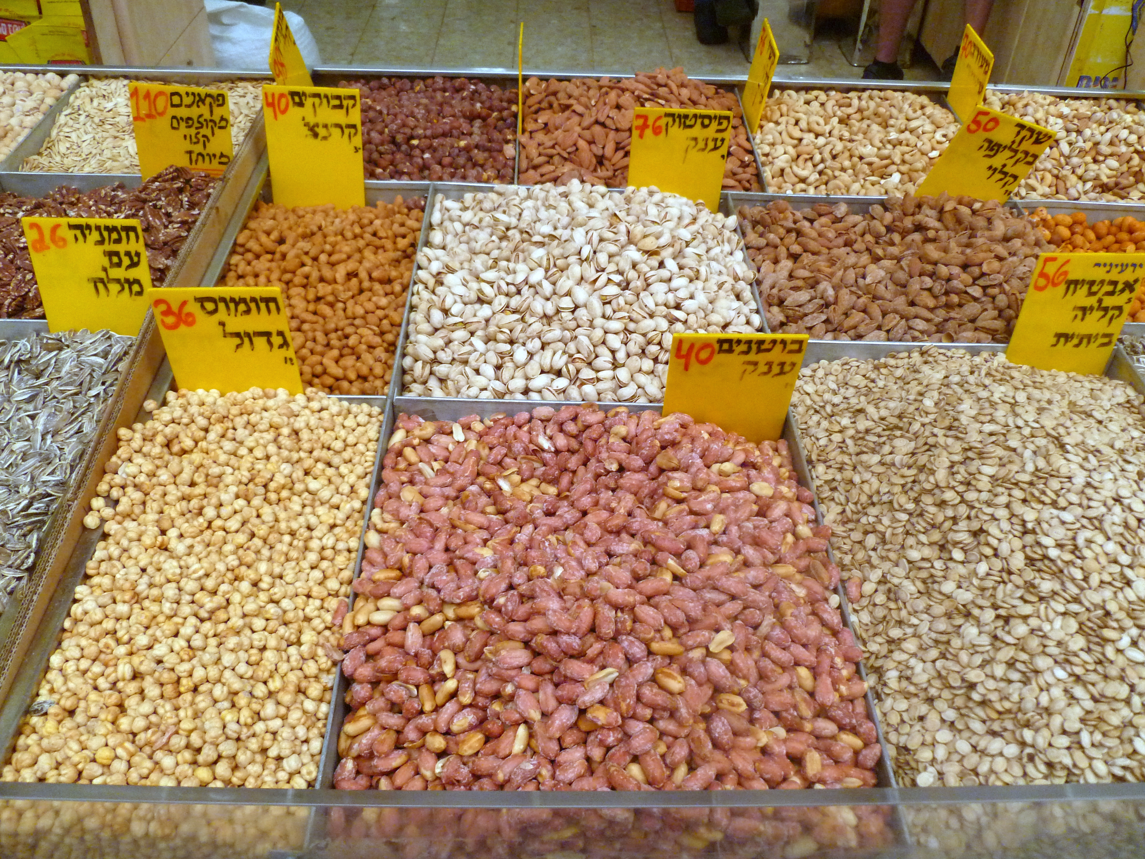 Cities in Israel